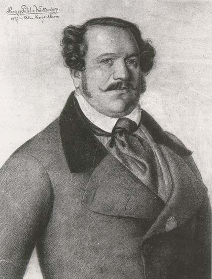 Paul Wilhelm of Württemberg